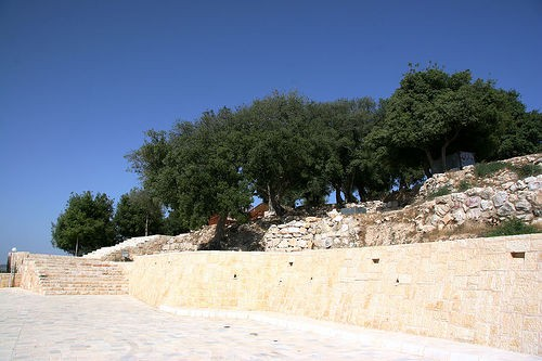 Photo of Tel Mar Elias, North Jordan. Taken by Nick Fraser in August 2005